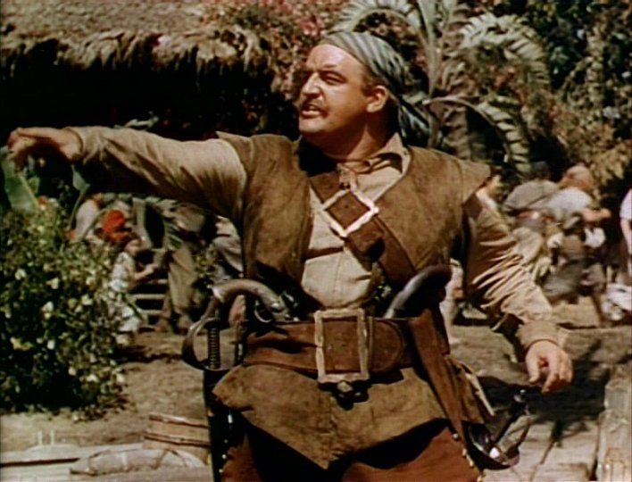 Laird Cregar in a screenshot from the trailer for the film The Black Swan.